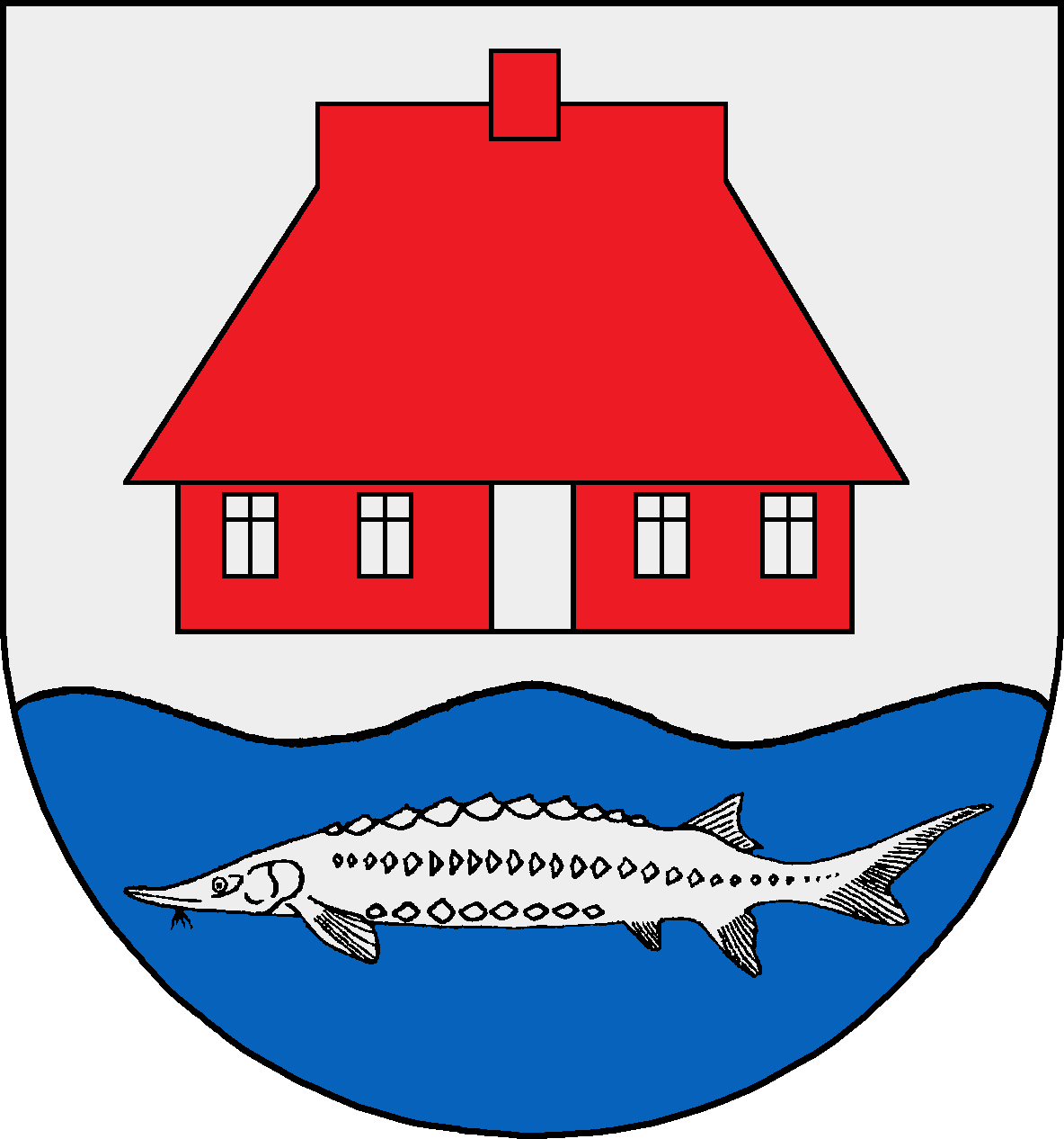 Coat of arms of the municipality Störkathen in Schleswig-Holstein, Germany.